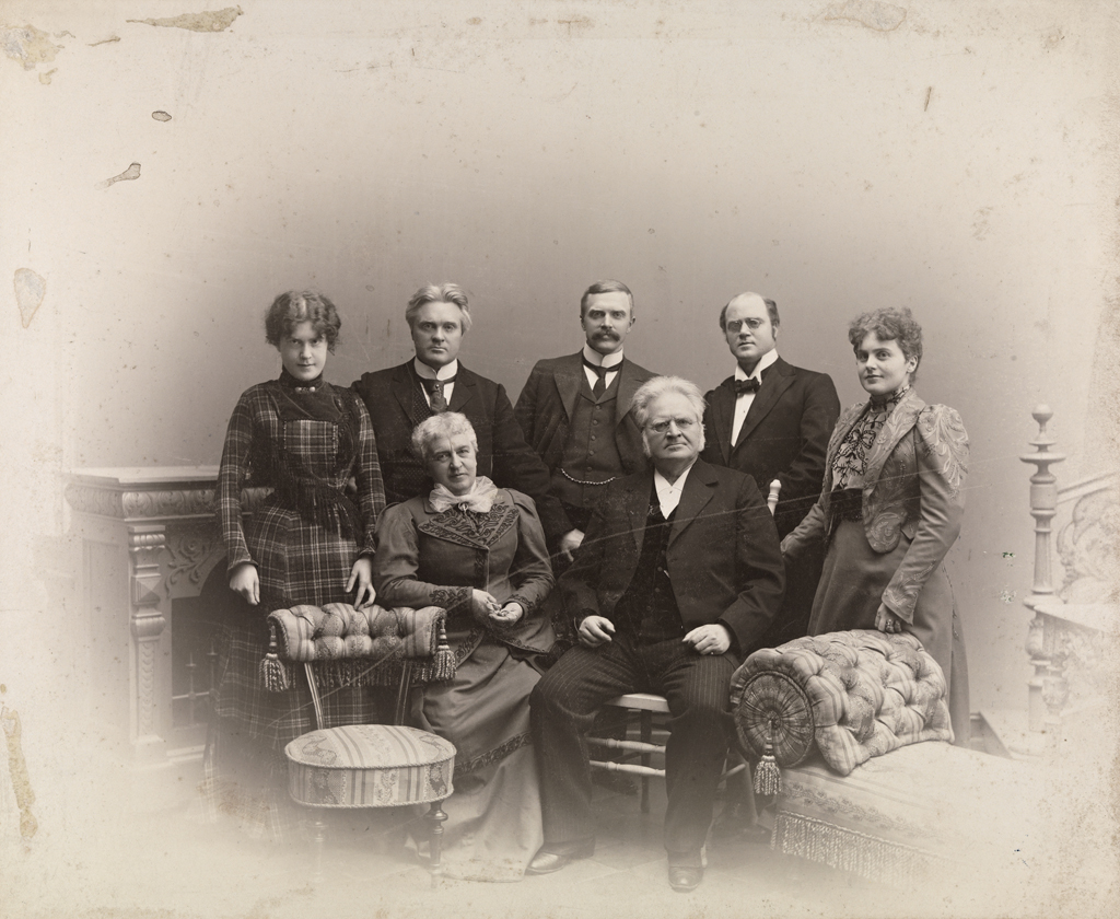 Tittel / Title: Karoline og Bjørnstjerne Bjørnson sammen med barna Motiv / Motif: Fra venstre: Dagny Sautreau, Bjørn Bjørnson, Einar Bjørnson, Erling Bjørnson og Bergliot Ibsen, Karoline og Bjørnstjerne Bjørnson foran. Dato / Date: ca 1898 Fotograf / Photographer: Ludvig Forbech (1865-1942) Eier / Owner Institution: Nasjonalbiblioteket / National Library of Norway Lenke / Link: Bildesignatur / Image Number: no-nb_bldsa_BB1476